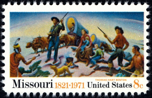 Missouri statehood’s 150th anniversary was commemorated with an 8-cent stamp on May 8, 1971. The vignette shows a Native American offering a pipe to settlers in a camp with a wagon train cresting a ridge in the background.